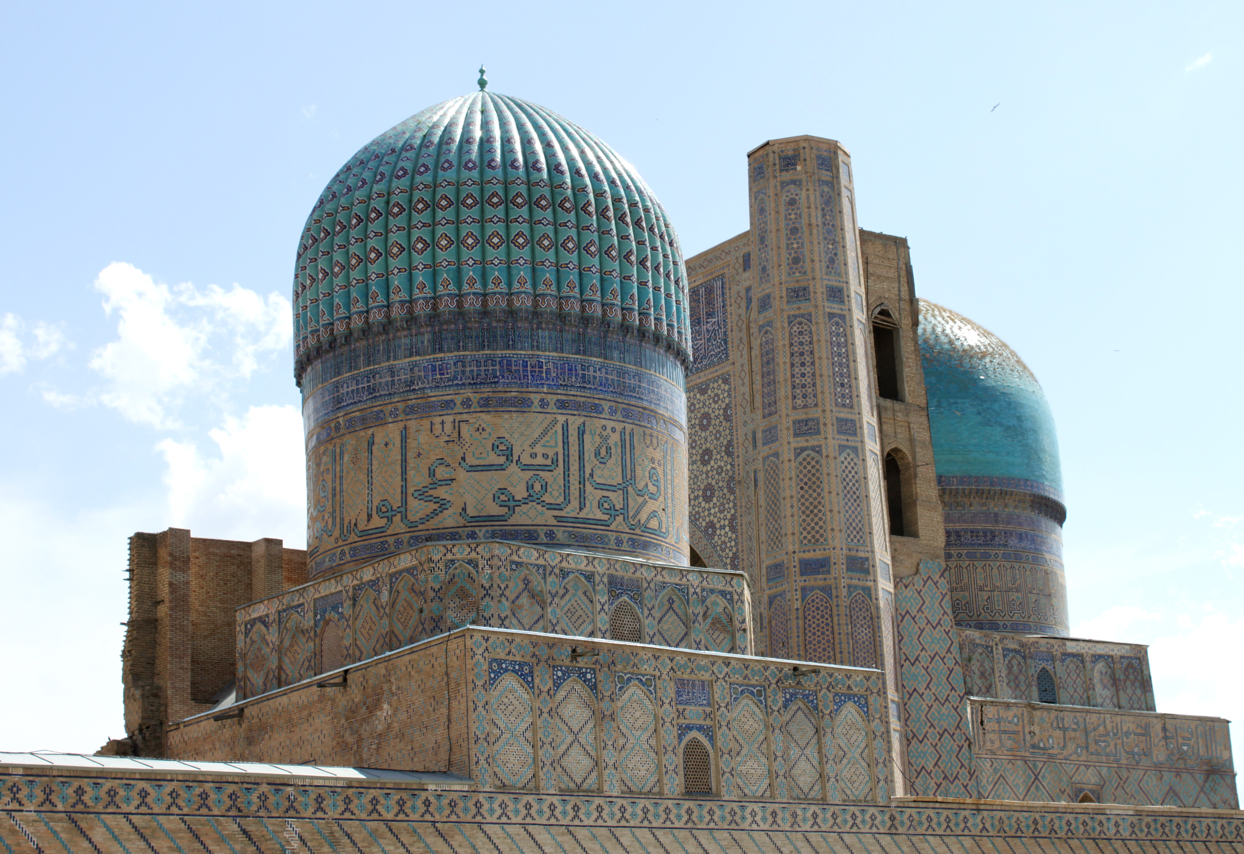 Bibi Khanum Mosque, Samarkand, Uzbekistan